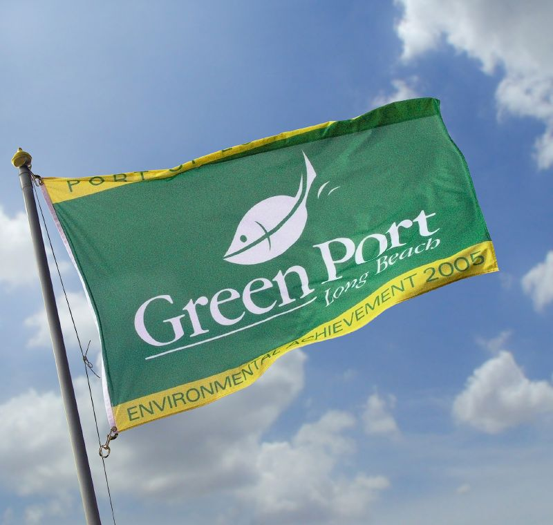 "Green Port" flag of the Port of Long Beach. I work for the communications dept. for the Port of Long Beach and the pictures I use meet the criteria of being "free content."